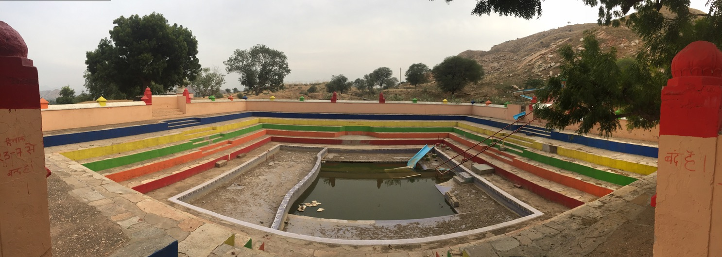 A Stepwell called Udoji ki Baori in Mandholi, Sikar, Rajasthan